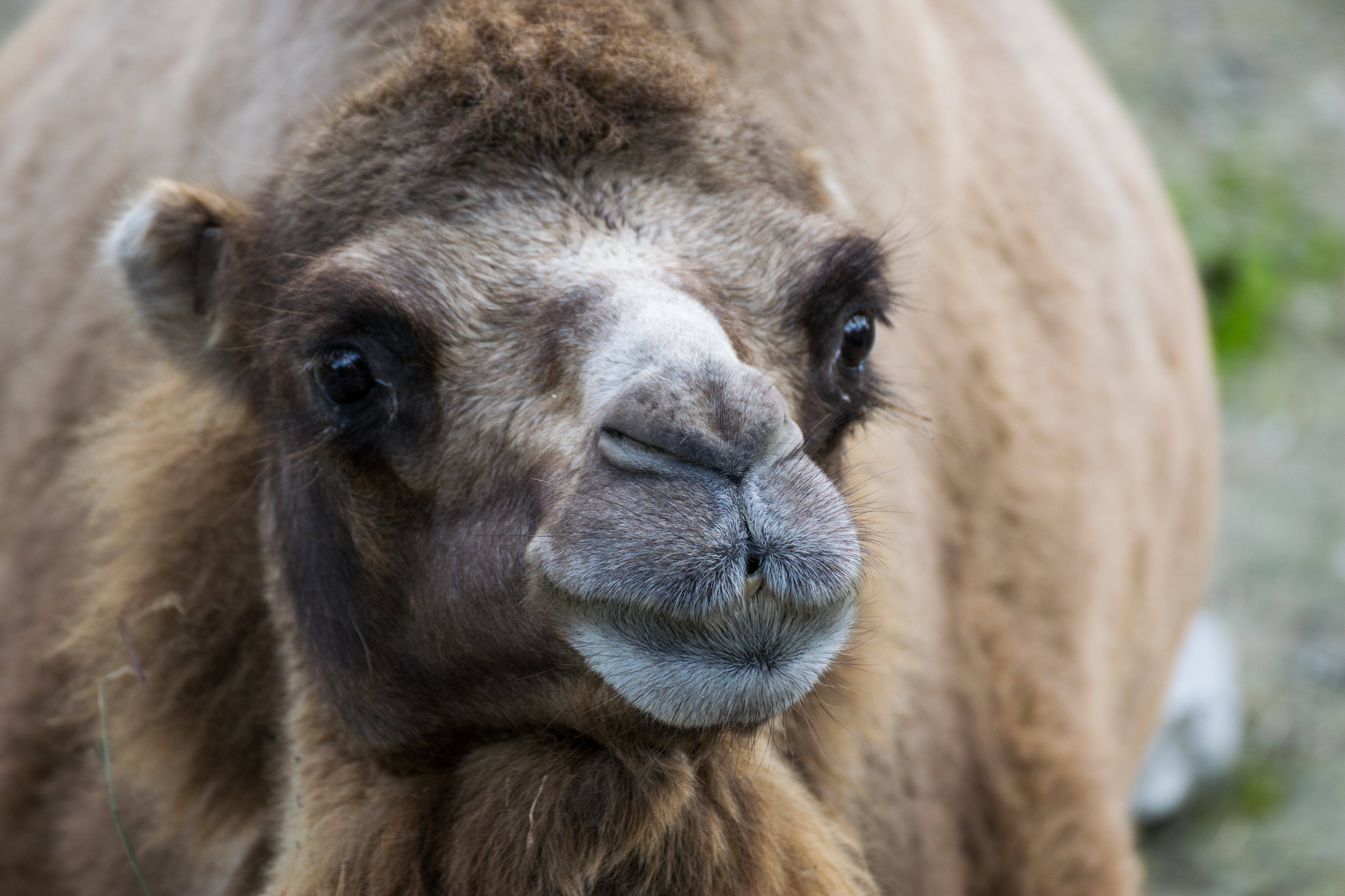 A Bactrian camel at the Wild Zoo of St-Félicien (Quebec, Canada).